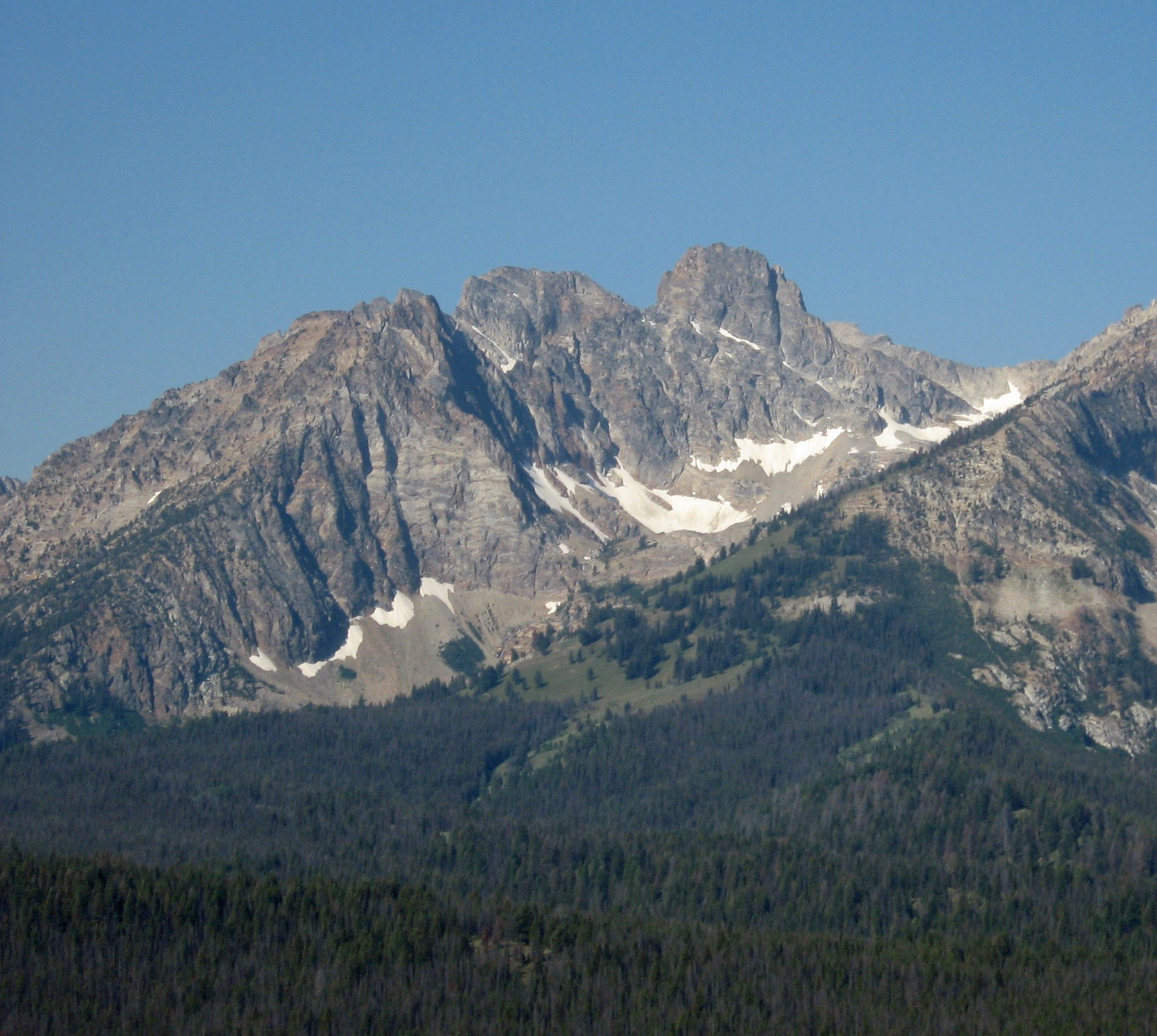 Thompson Peak in the Sawtooth Range in the Sawtooth Wilderness of Sawtooth National Recreation Area in Custer County, Idaho viewed from the ridge southeast of Stanley, Idaho above the Salmon River and Idaho state route 75.